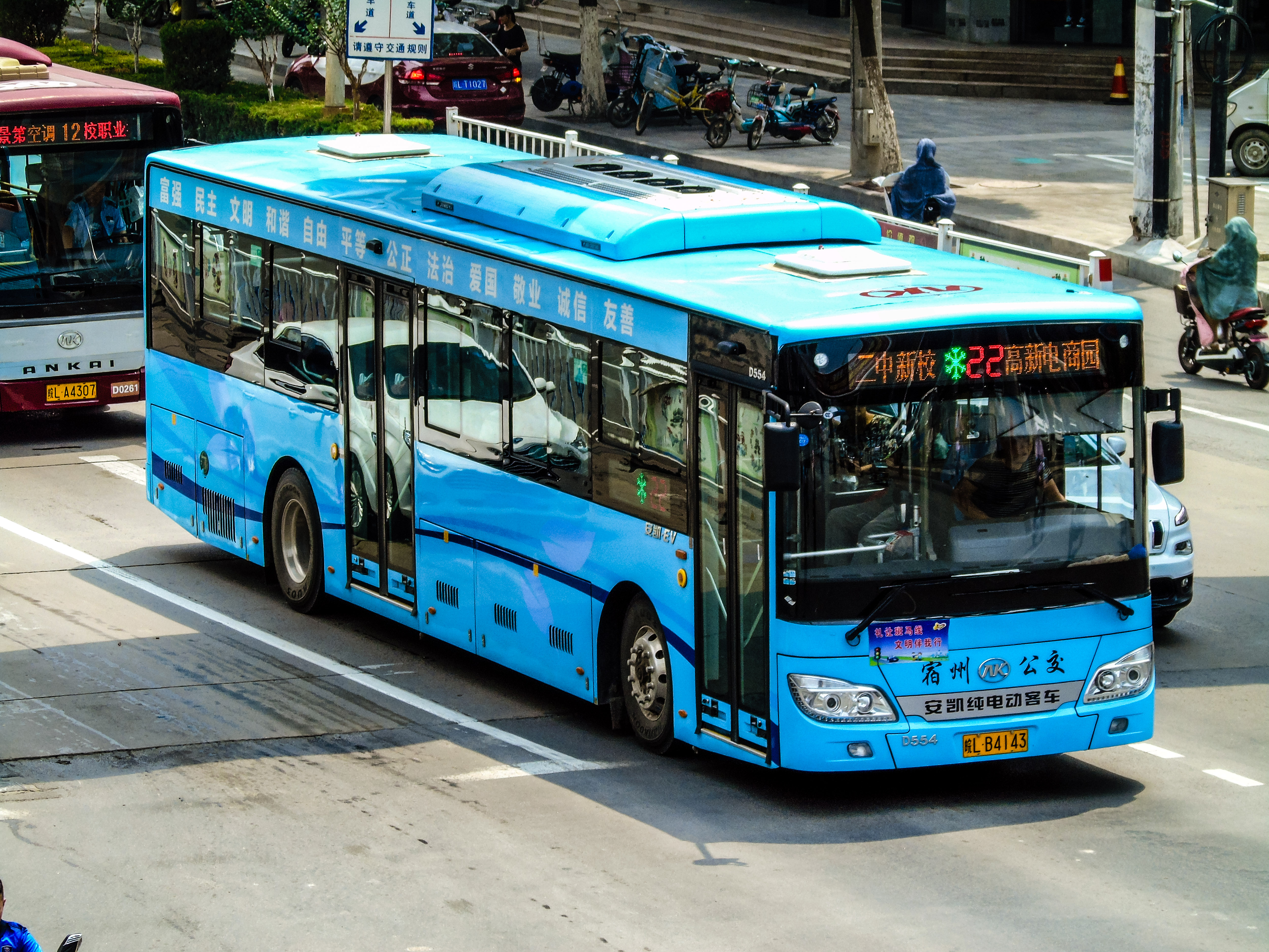 Suzhou Bus No.22